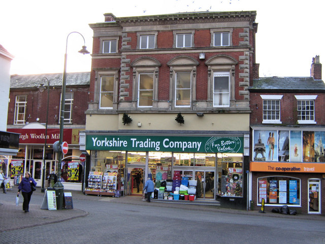 Yorkshire Trading Company, Leek, Staffordshire, England. A few months after Penny Mayes took this picture SJ9856 : Woolworths, Leek of the former Woolworths store in Leek it re-opened as the Yorkshire Trading Company. This company are based in Driffield, Yorkshire and appear to be expanding by taking over quite a few of the old "Woolies" stores. Their range of stock is very similar to Woolworths with reasonable prices.